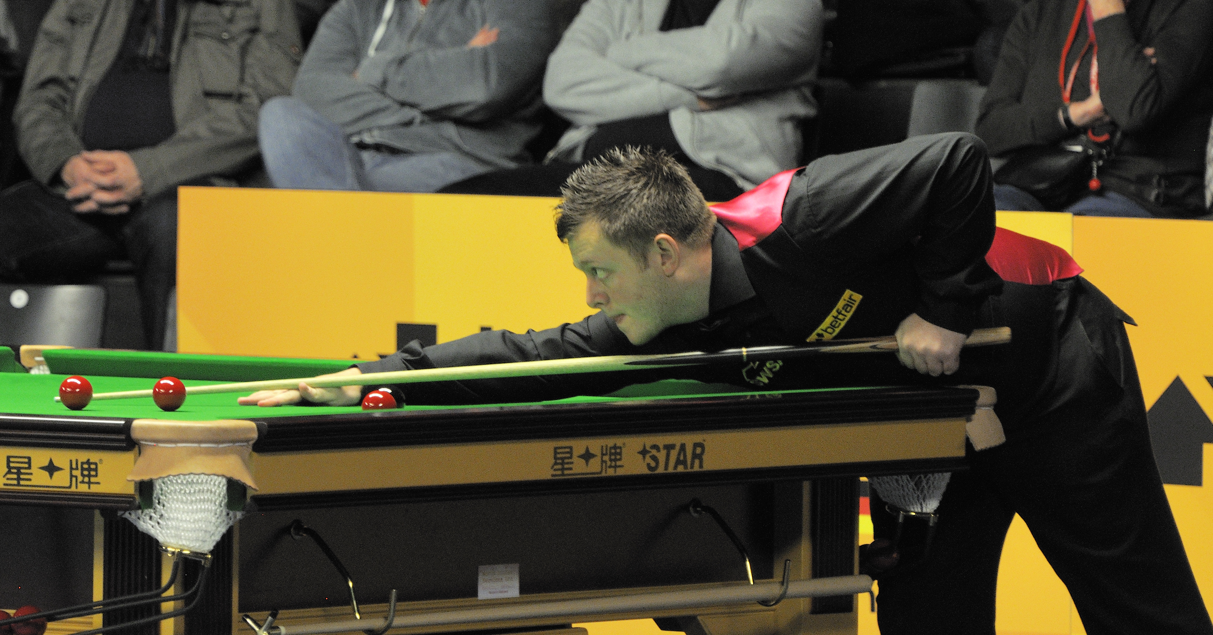 Picture taken in Berlin during the Snooker German Masters in 2013. Mark Allen.